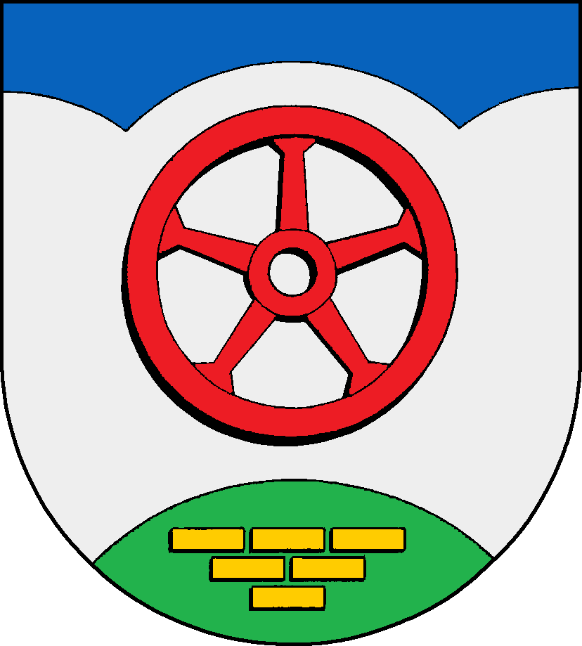 Coat of arms of the municipality Hennstedt in Schleswig-Holstein, Germany.